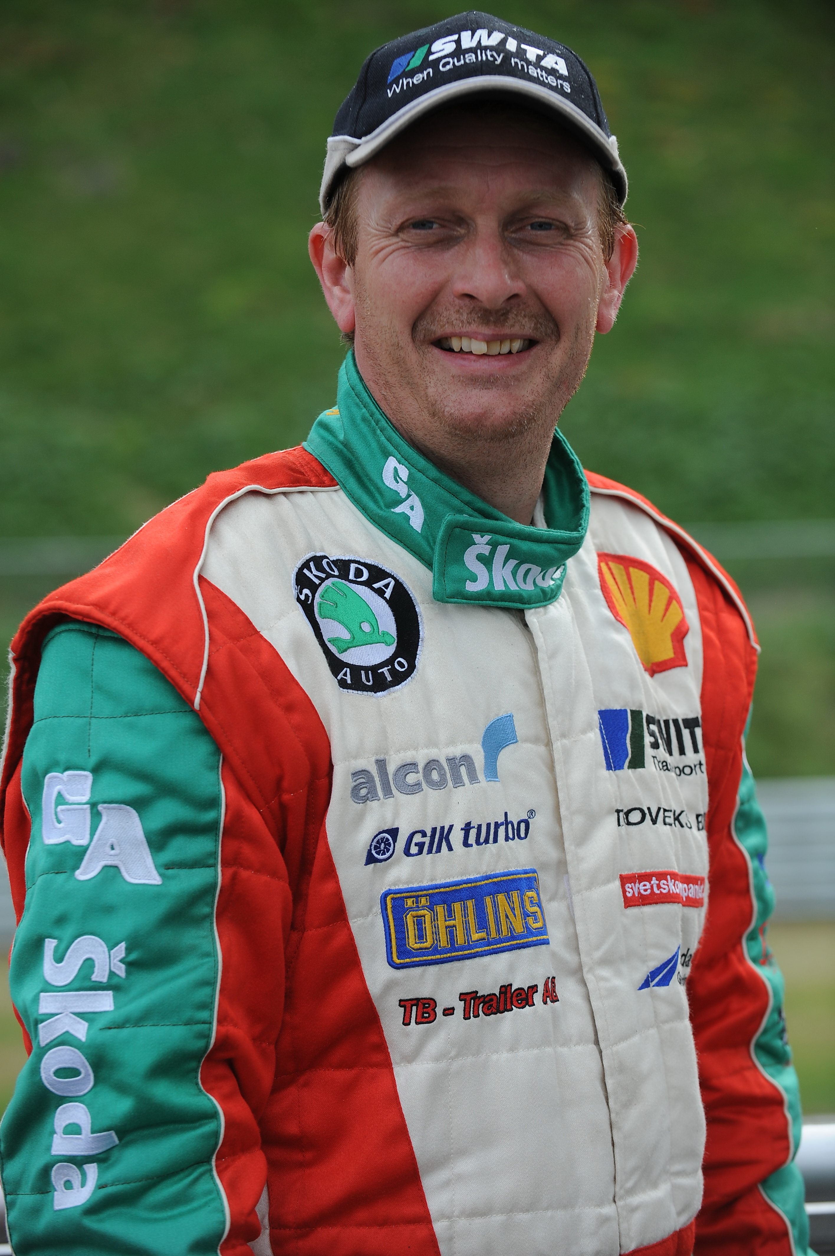 Swedish rallycross driver Michael Jernberg.